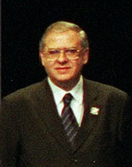 Julio Castro Caldas, minister of defense of Portugal, during the informal meeting of NATO defence ministers, October 2000